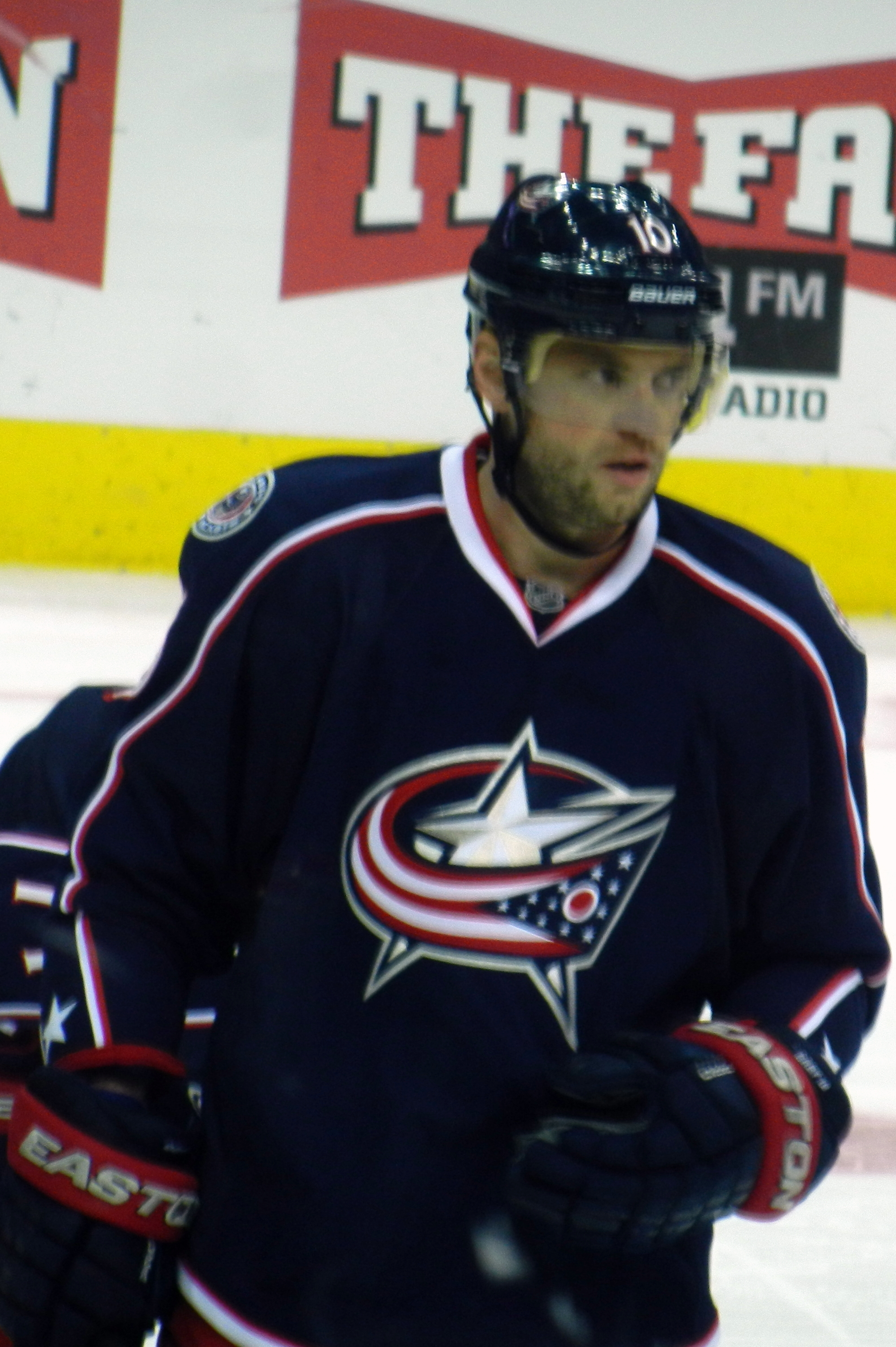 Marián Gáborík playing for the Columbus Blue Jackets during the 2013-14 season